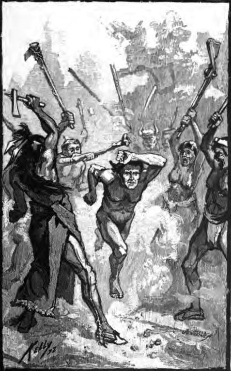 Native American activity. From p. 76